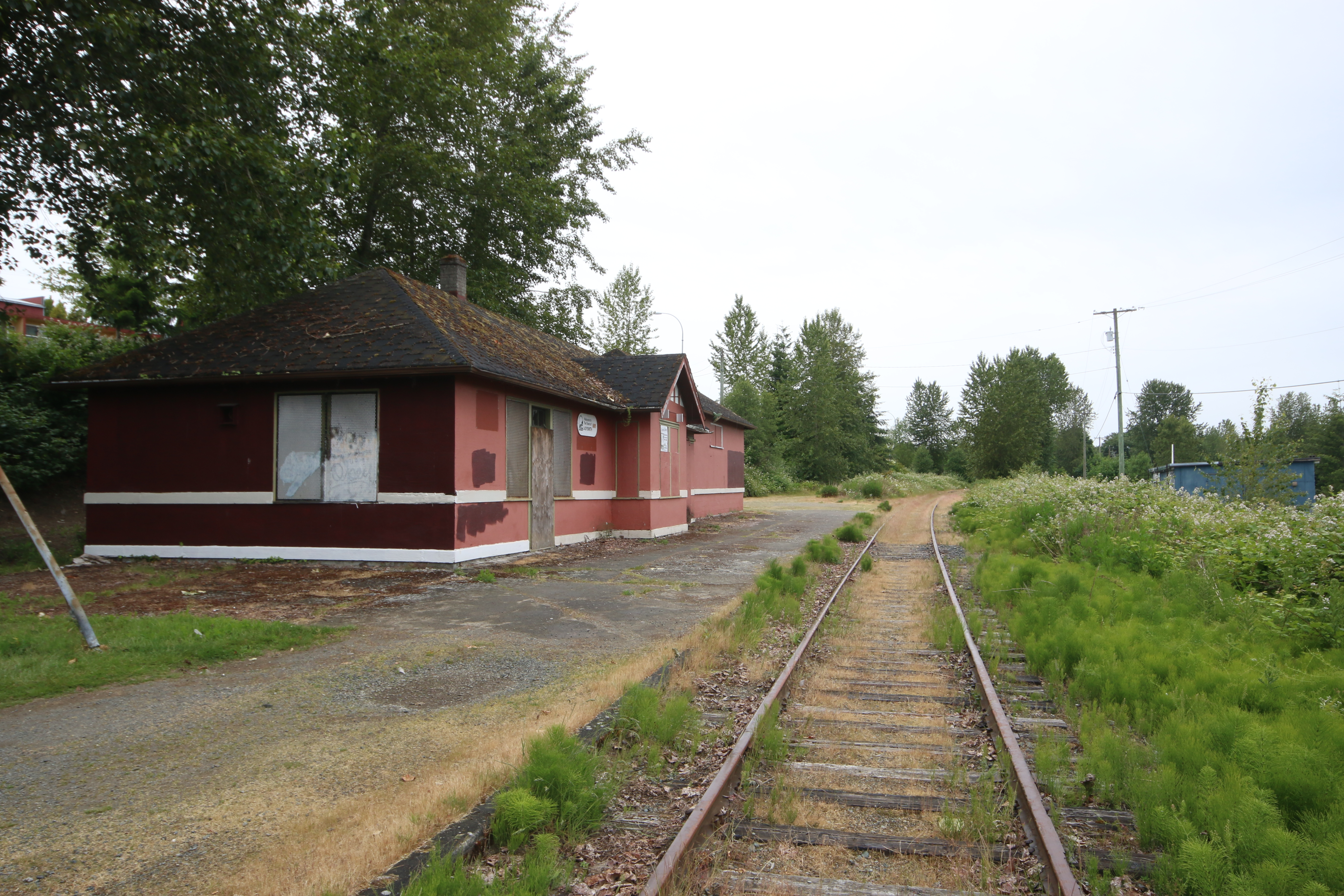 Abandoned VIA Rail Canada Station in Ladysmith, British Columbia.